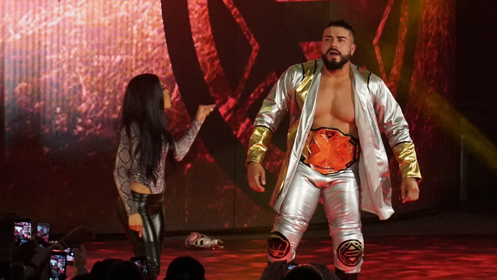 NXT Champion Andrade "Cien" Almas and his manager Zelina Vega at NXT TakeOver: New Orleans in April 2018.